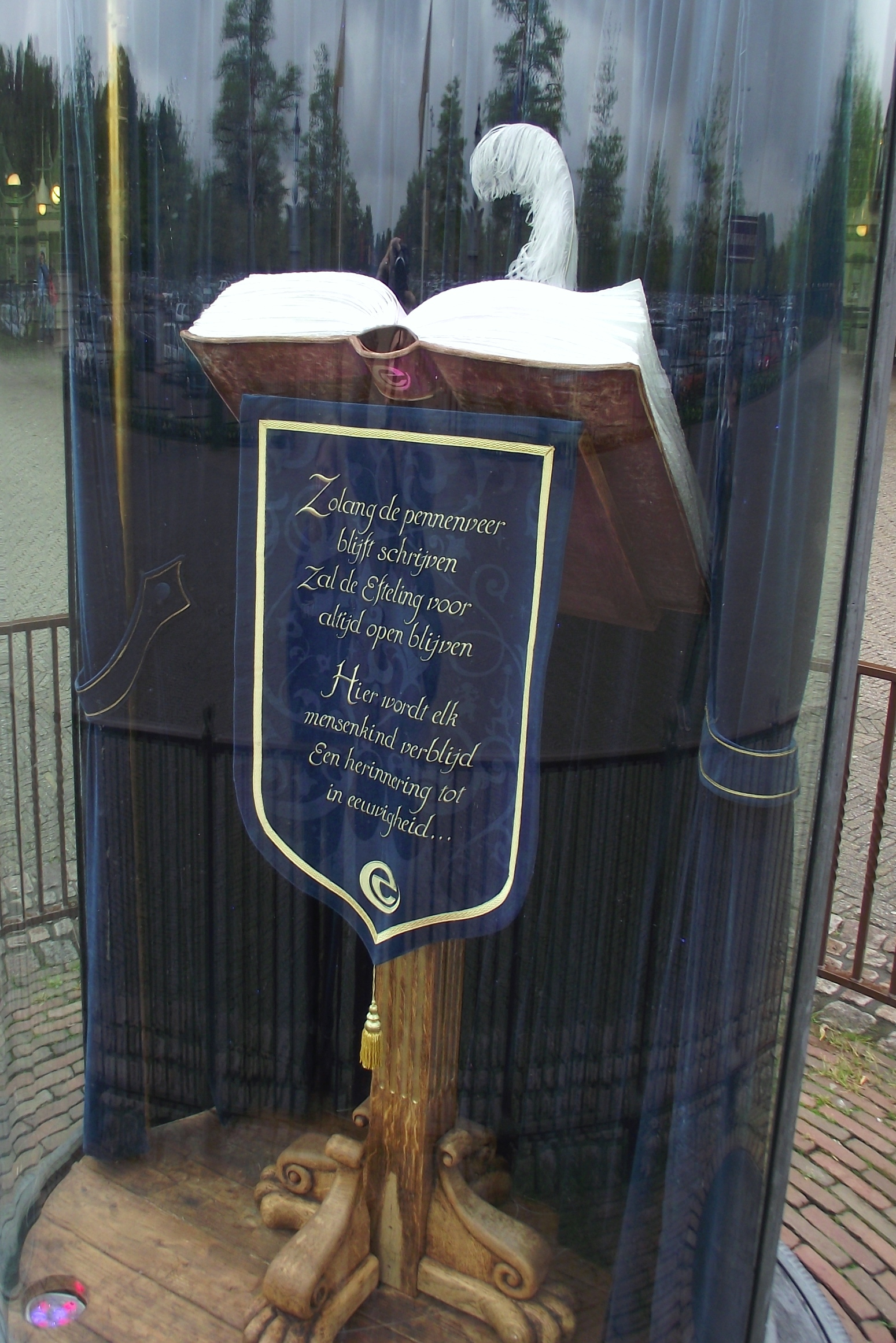 Pennenveer at Efteling